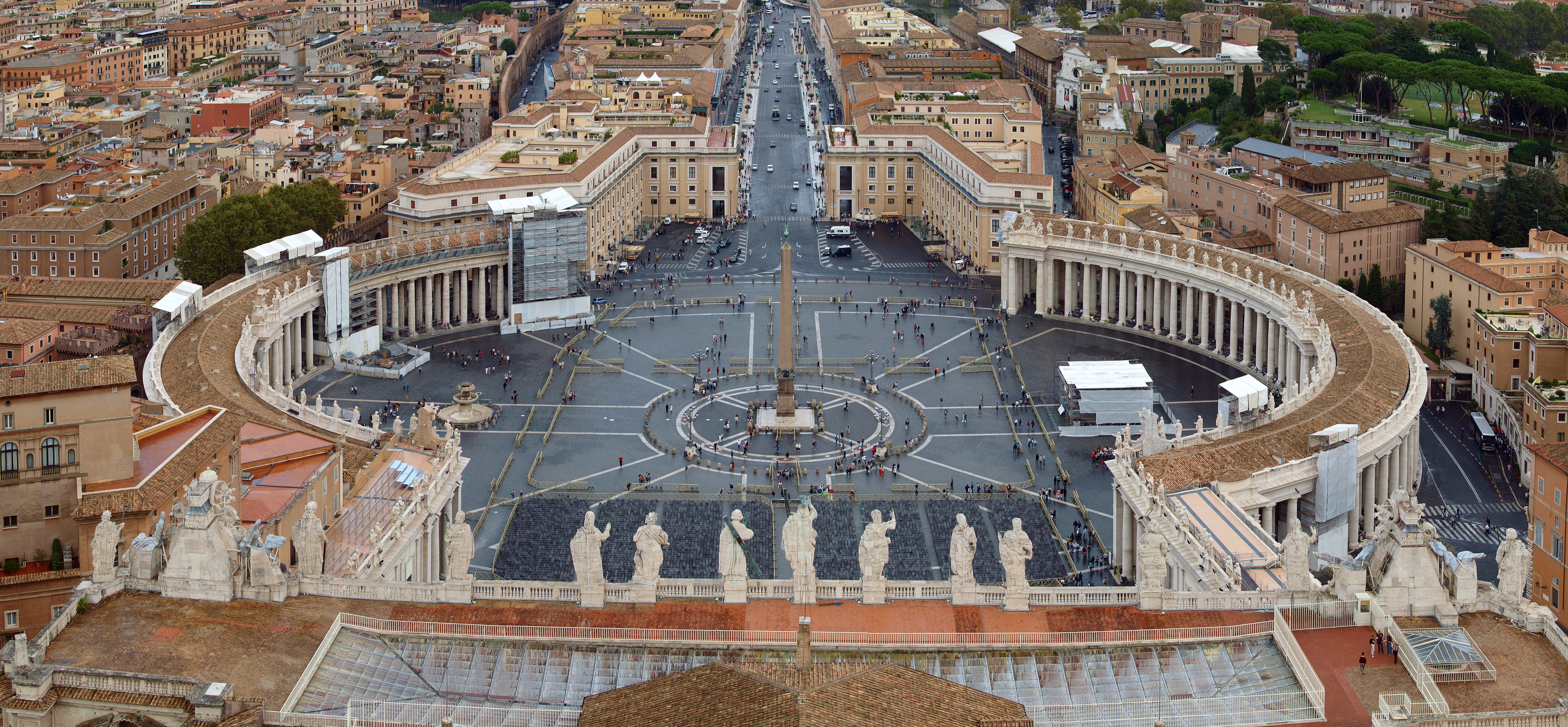 St. Peter's Square, viewed from the dome of St. Peter's Basilica